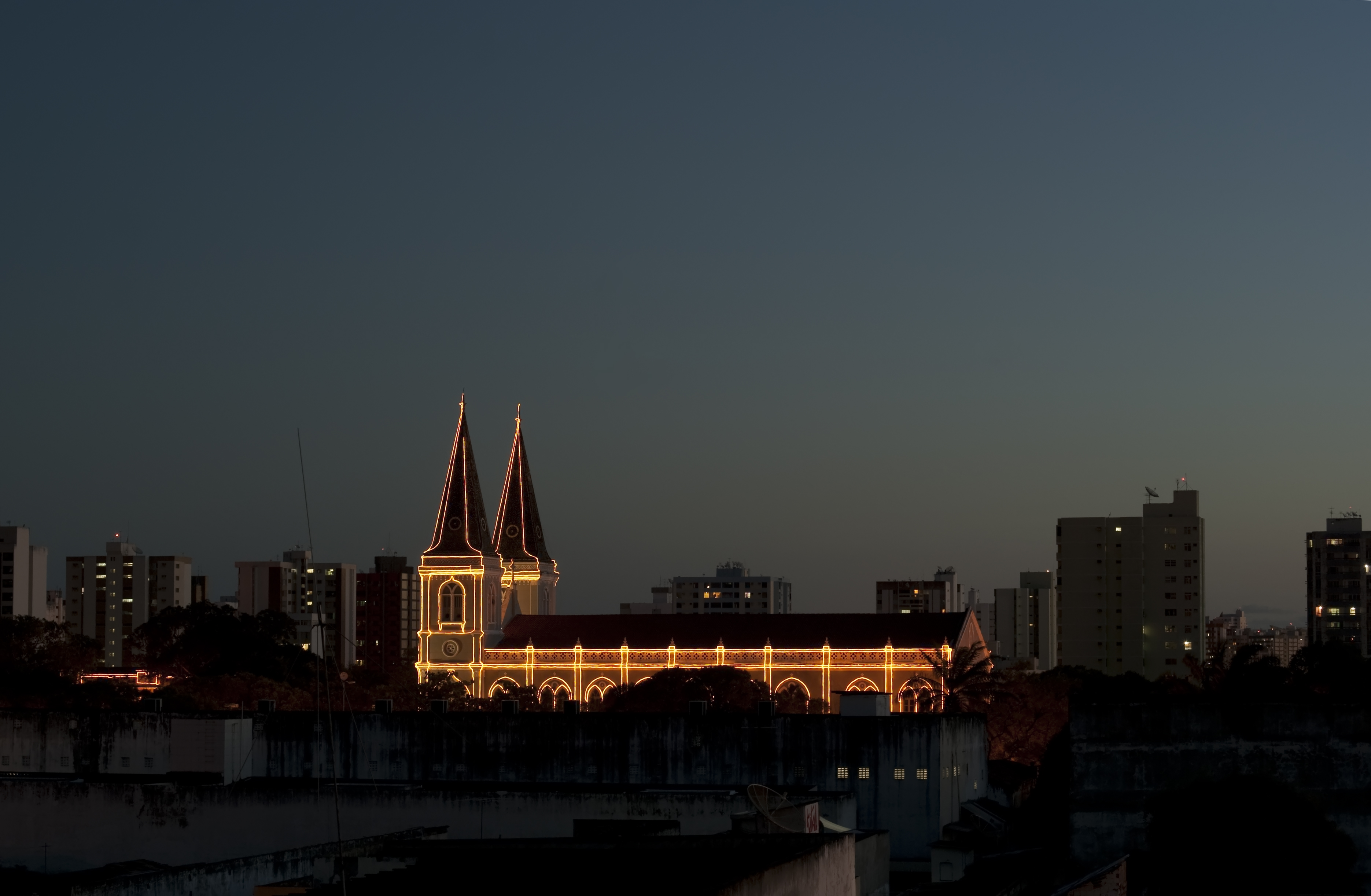 This is the Metropolitan Cathedral of the city of Aracaju in the state of Sergipe, Brazil.